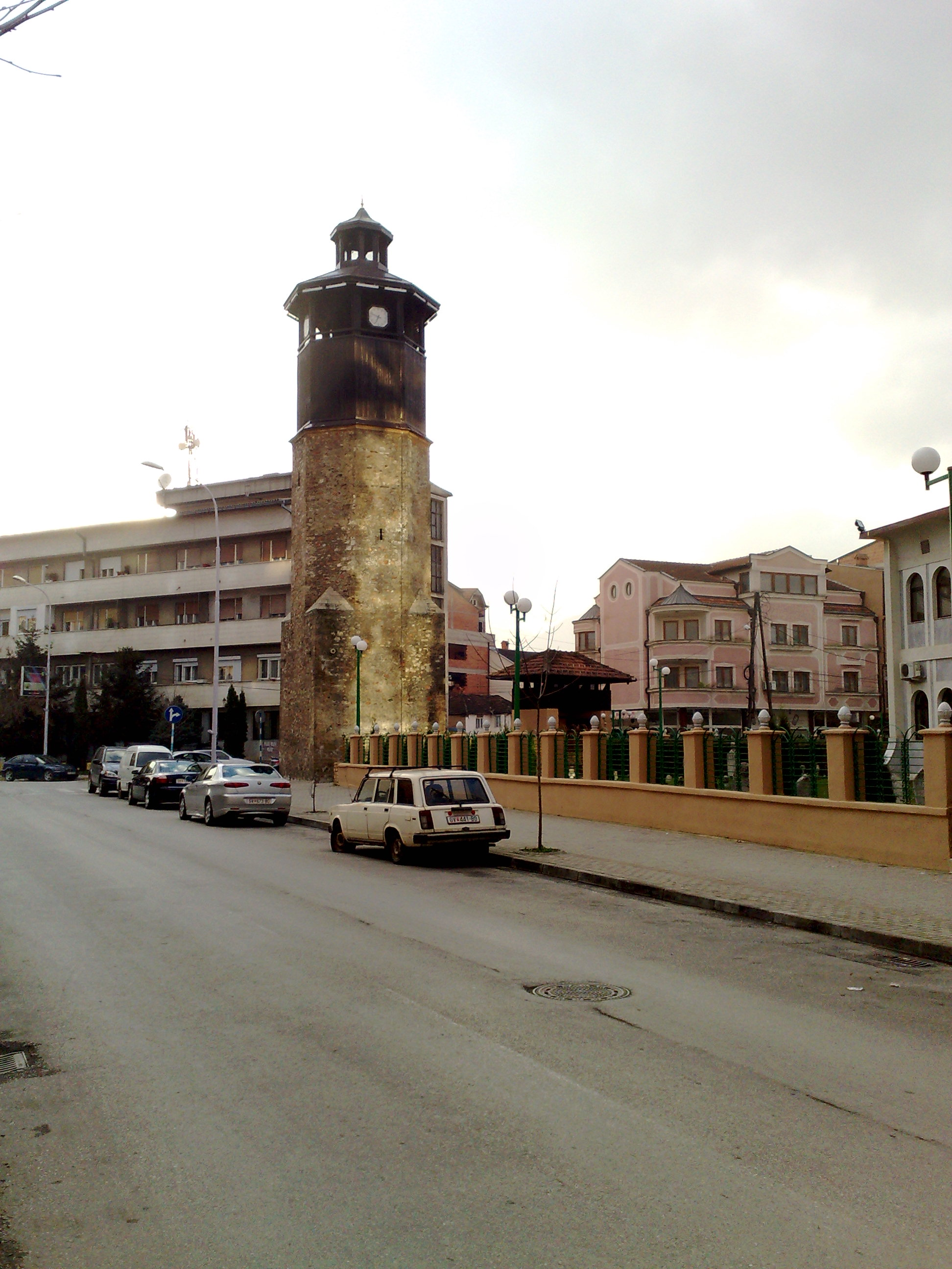 Clock-tower in Gostivar, Macedonia